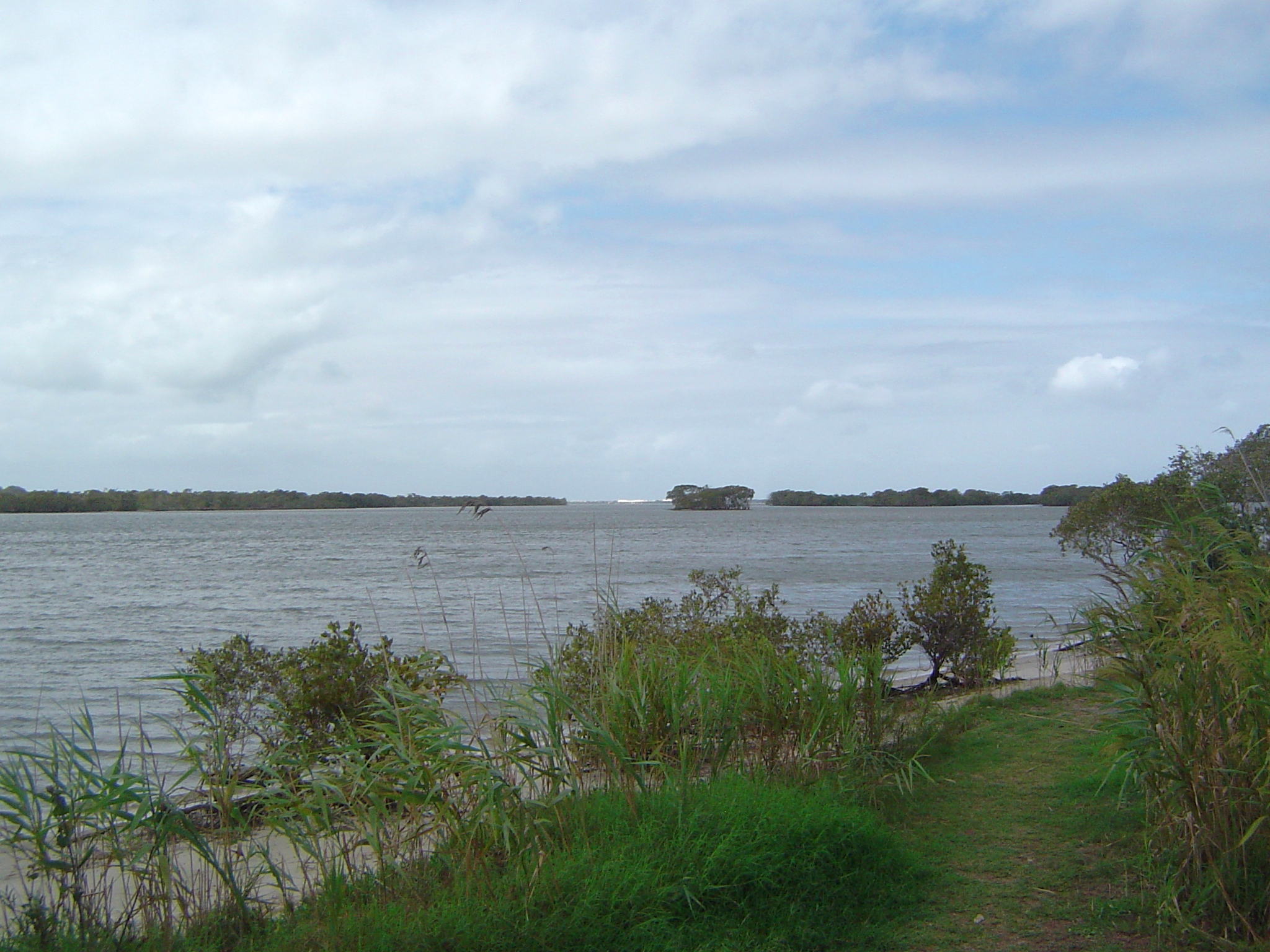 Photo of Tipplers Passage from Jacobs Well, Queensland, Australia.